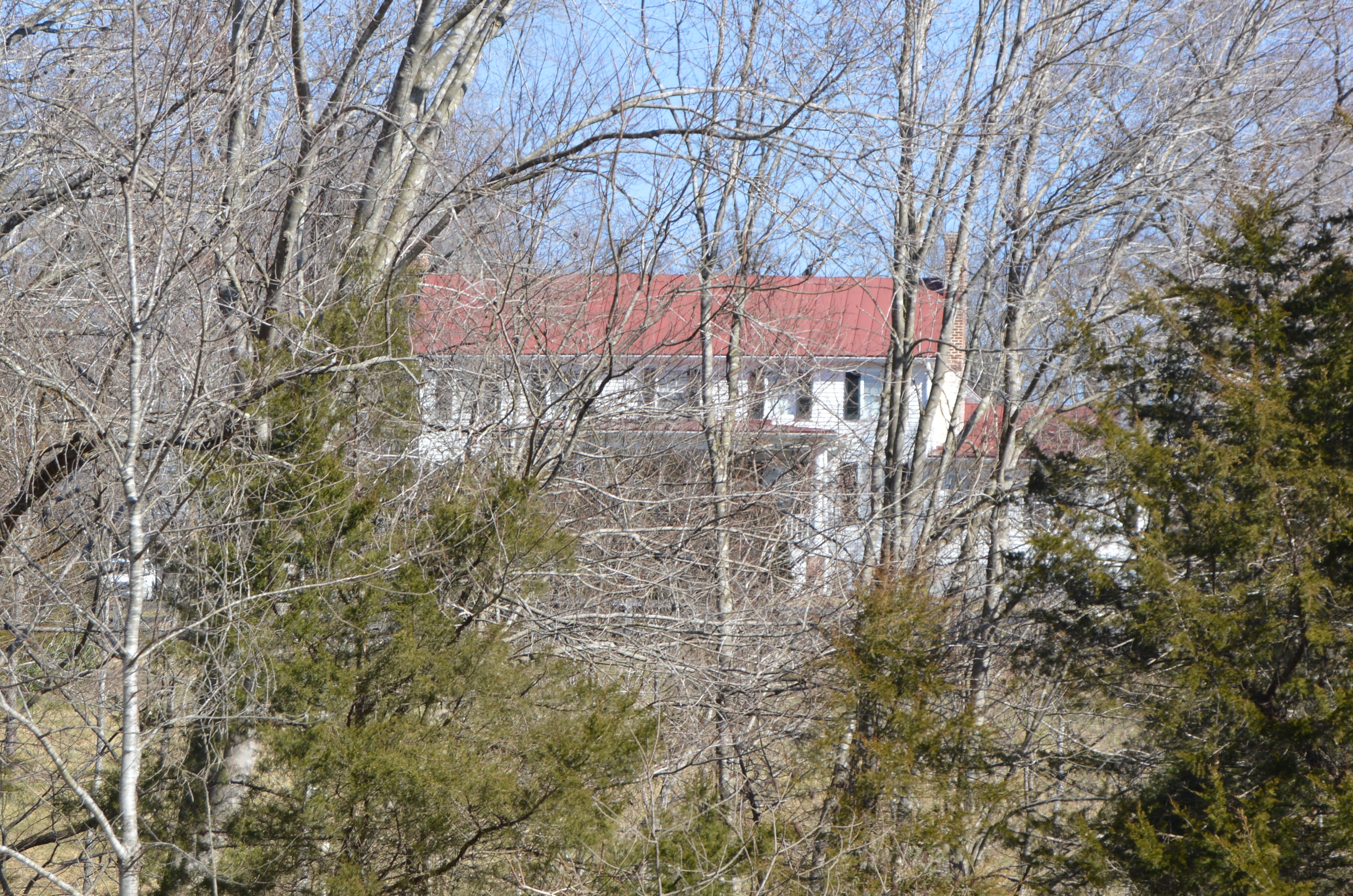 Roadside view of Clifton, located at 7091 Monumental Mills Road northwest of Rixeyville in Culpeper County, Virginia, United States. Built in 1845, it is listed on the National Register of Historic Places.